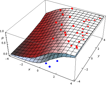 Confidence region of level 0.1 for the family of support vector machines endowed with hyperbolic tangent profile function